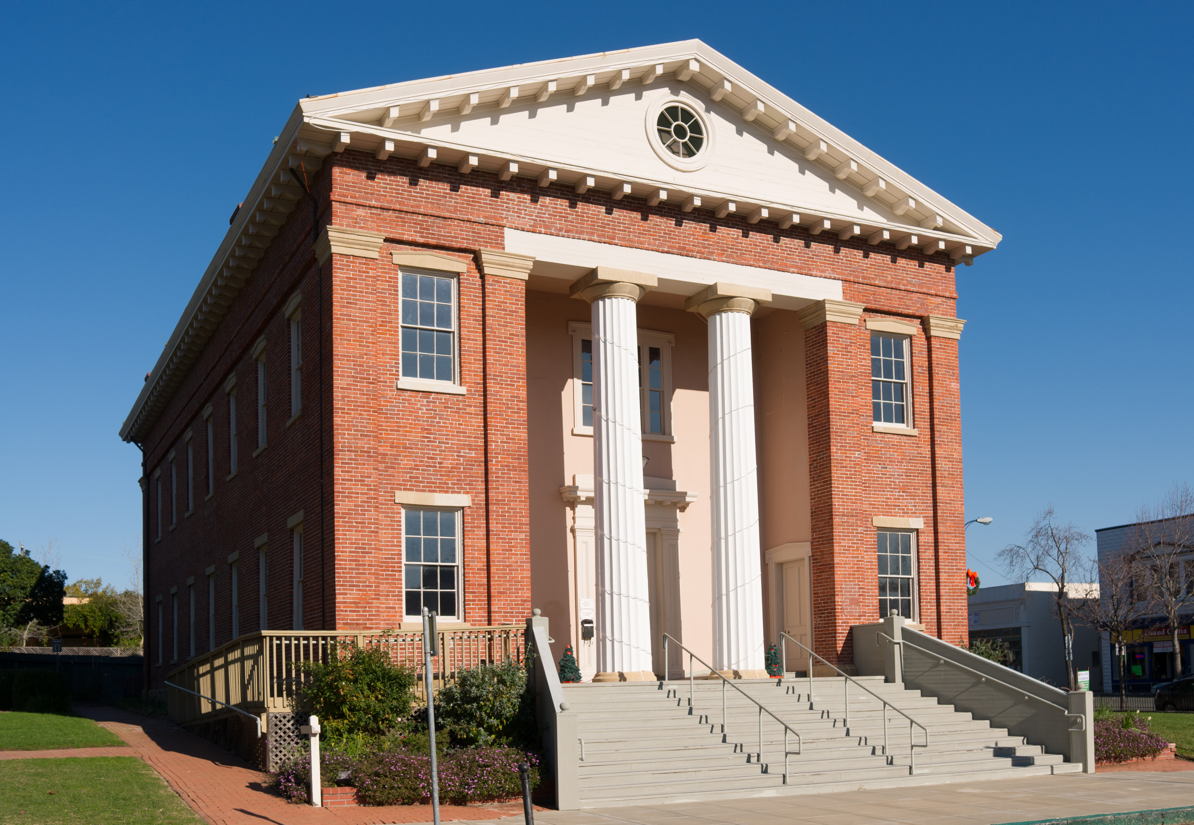 Third California State Capitol, 115 West G Street, Benitia, CA